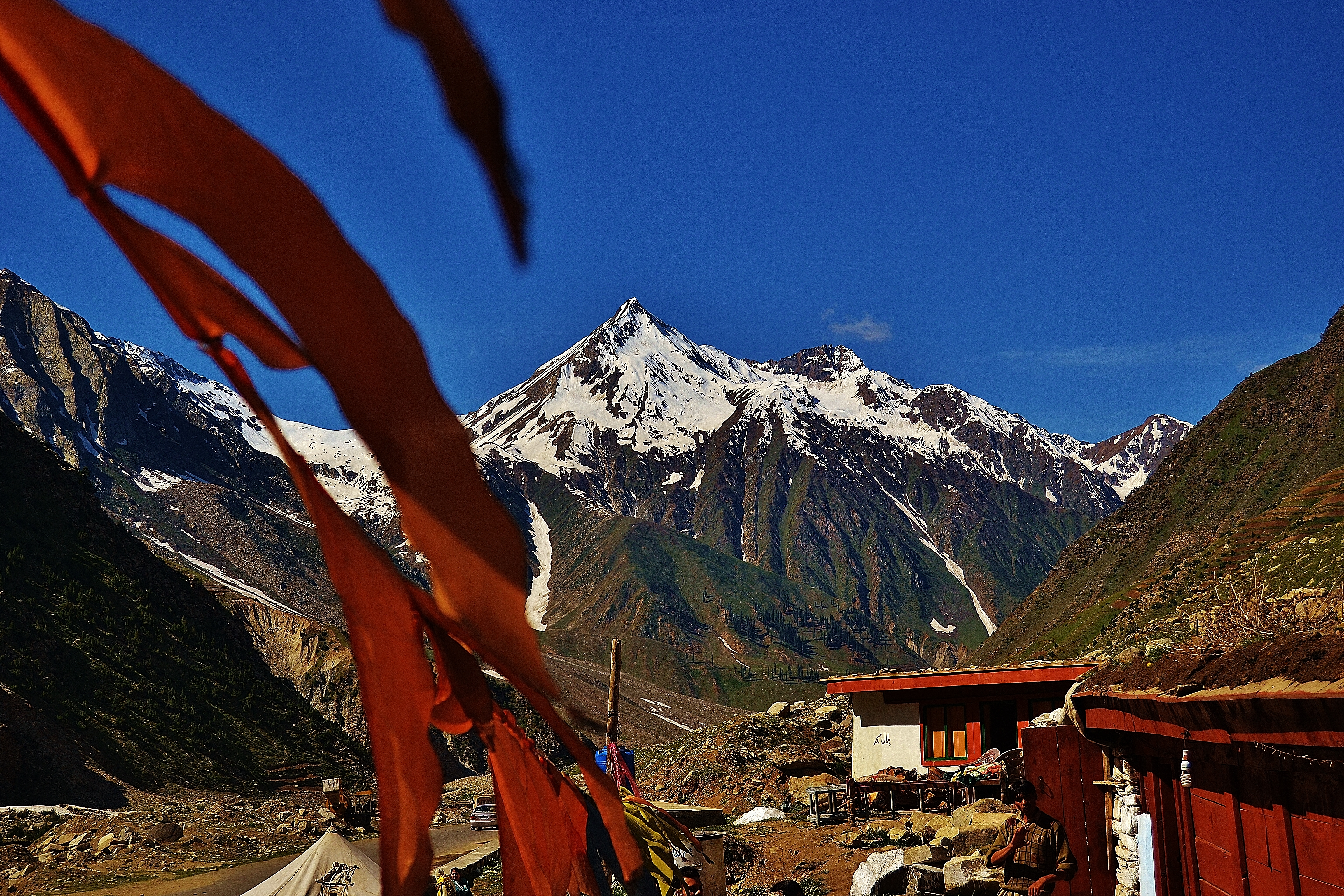 A view of Jalkhad peak from a roadside tea stall.